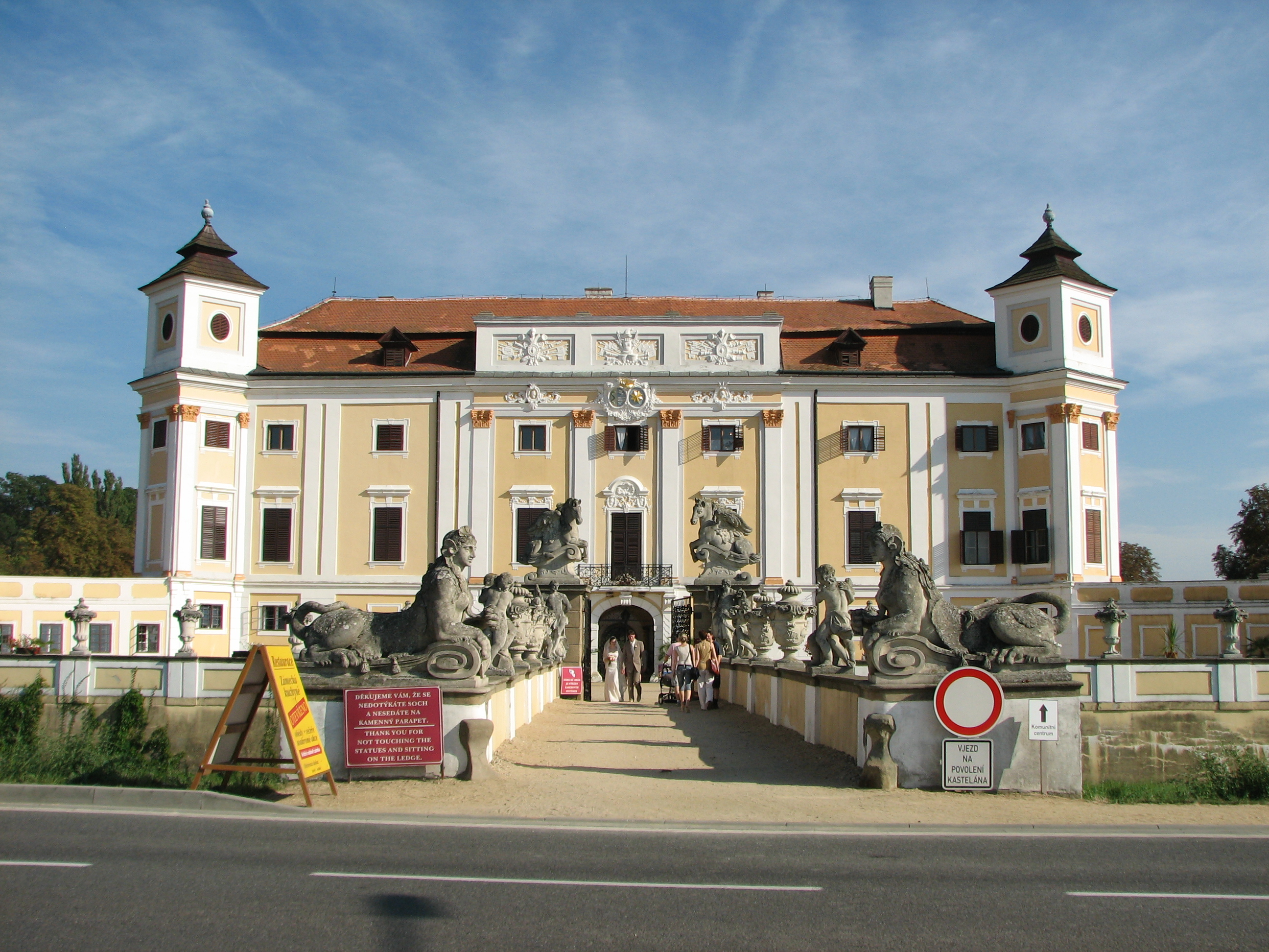 Baroque Chateau in Milotice, Hodonín district, Czech Republic